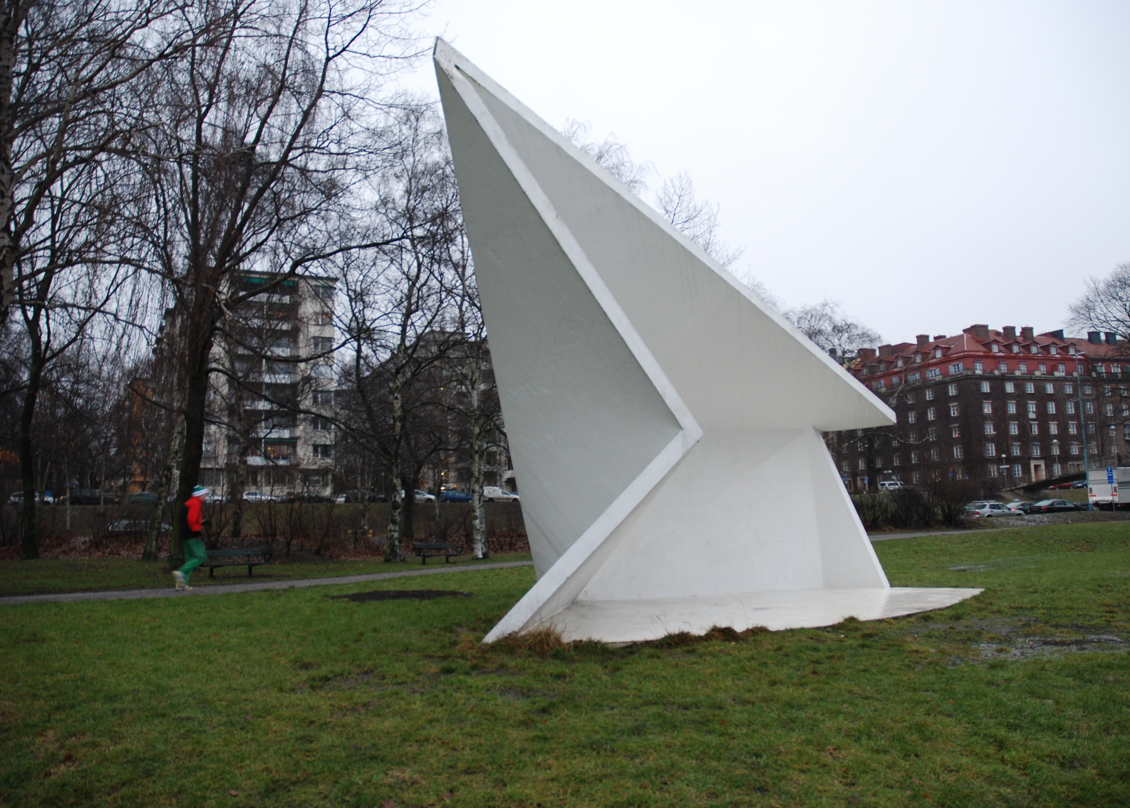 Elli Hemberg´s The Butterfly (Fjärilen), 1980, concrete, in Stockholm, Sweden